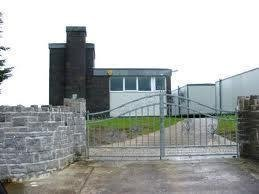 Midfield National School is the main primary school for the parish.